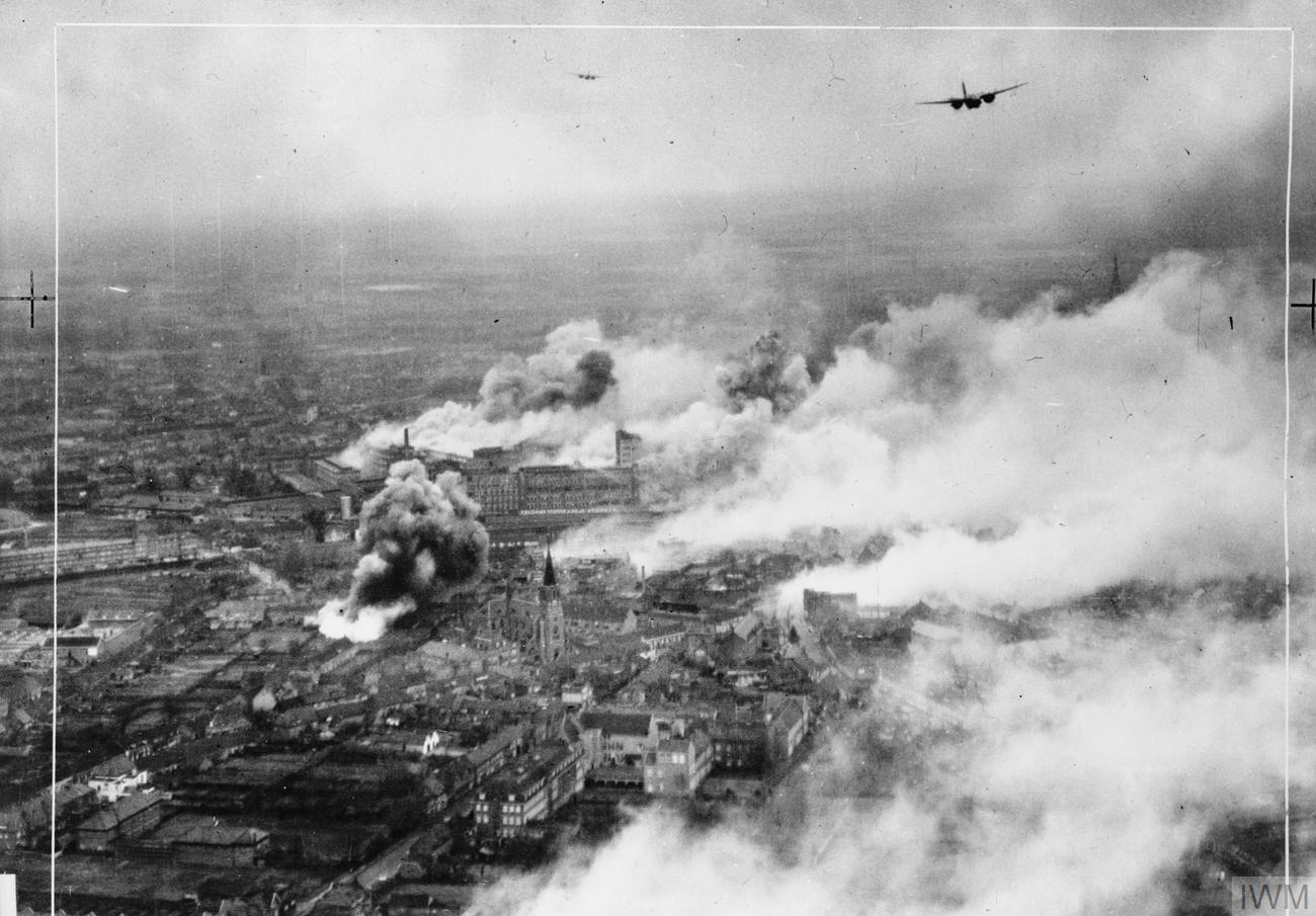 Operation OYSTER, the daylight attack on the Philips radio and valve works at Eindhoven, Holland, by No. 2 Group. Douglas Bostons fly over the burning Emmasingel lamp and valve factory at the height of the raid. The works were so severely hit that full production was not resumed for six months.